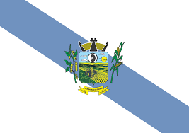 Flag of Três Barras do Paraná - Copyrited by the brazilian law of Industrial Preperty (Law 9.279/ 14/05/1996)